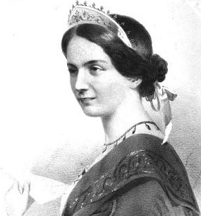 Lithograph portrait of Italian opera singer Teresa Parodi (1827–1878) by Napoleon Sarony after a daguerreotype by Charles C. Harrison